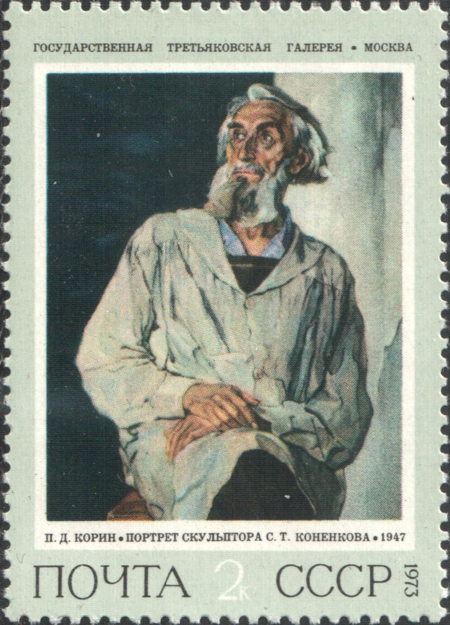 USSR stamp